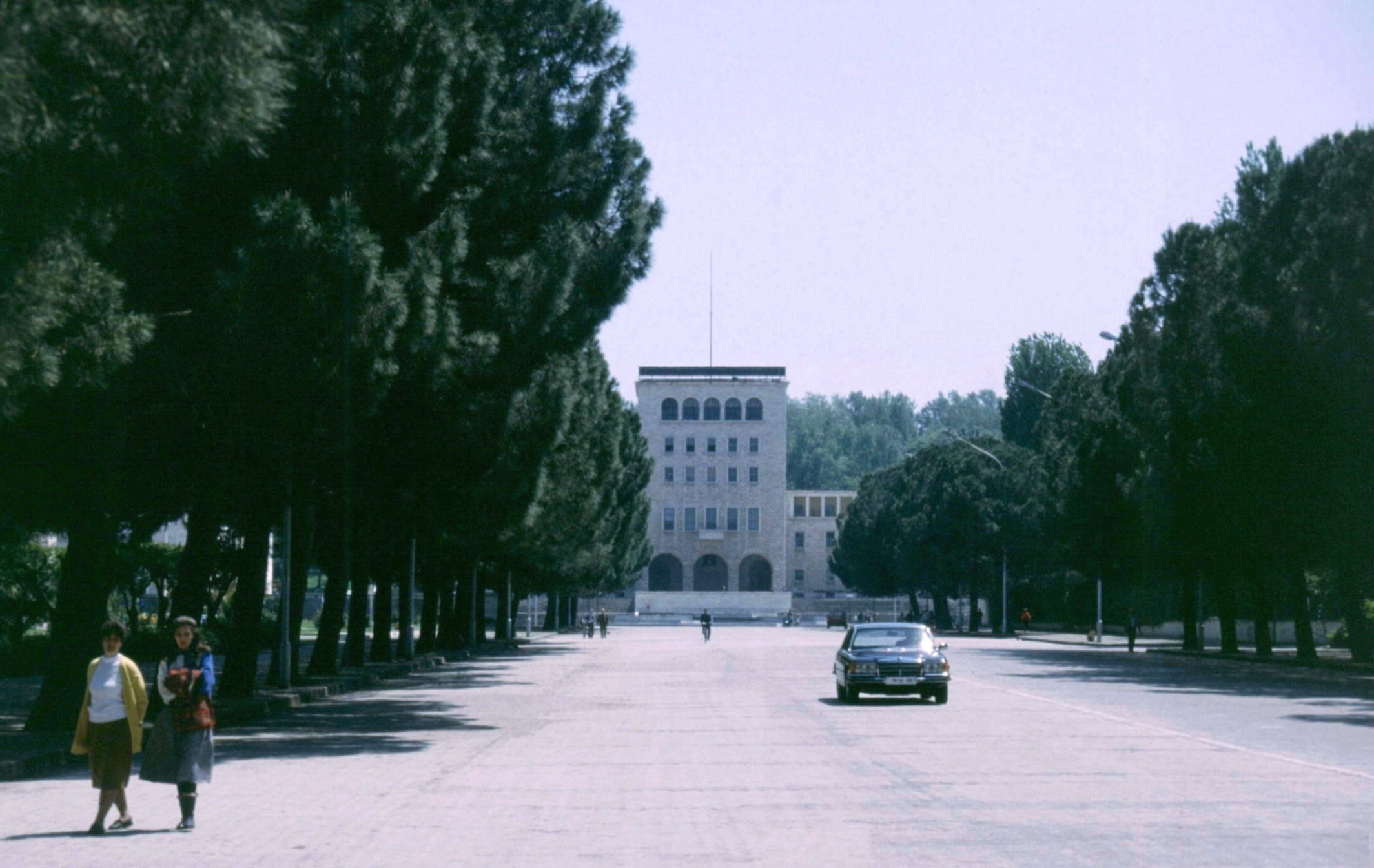 University of Tirana. Picture taken in April, 1991 (The building of the University of Tirana was constructed in 1939/40 by Gherardo Bosio as Casa del Fascio.)